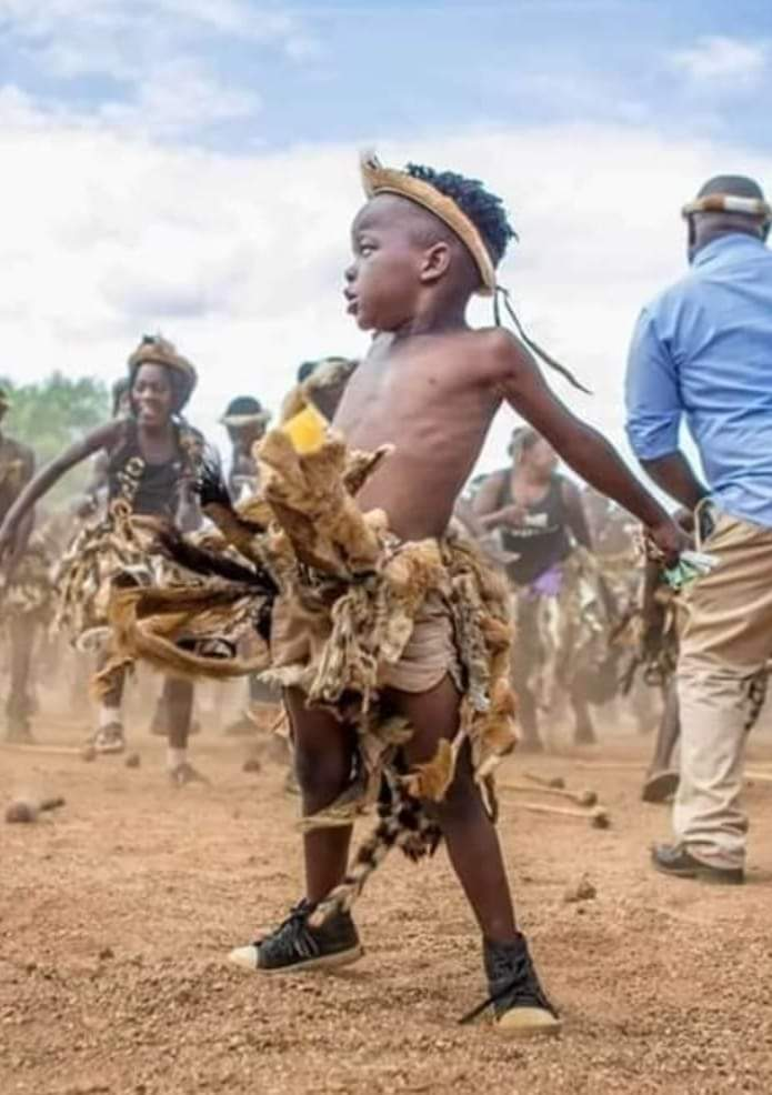 This is an image with the theme "Africa on the Move or Transport" from: Zambia